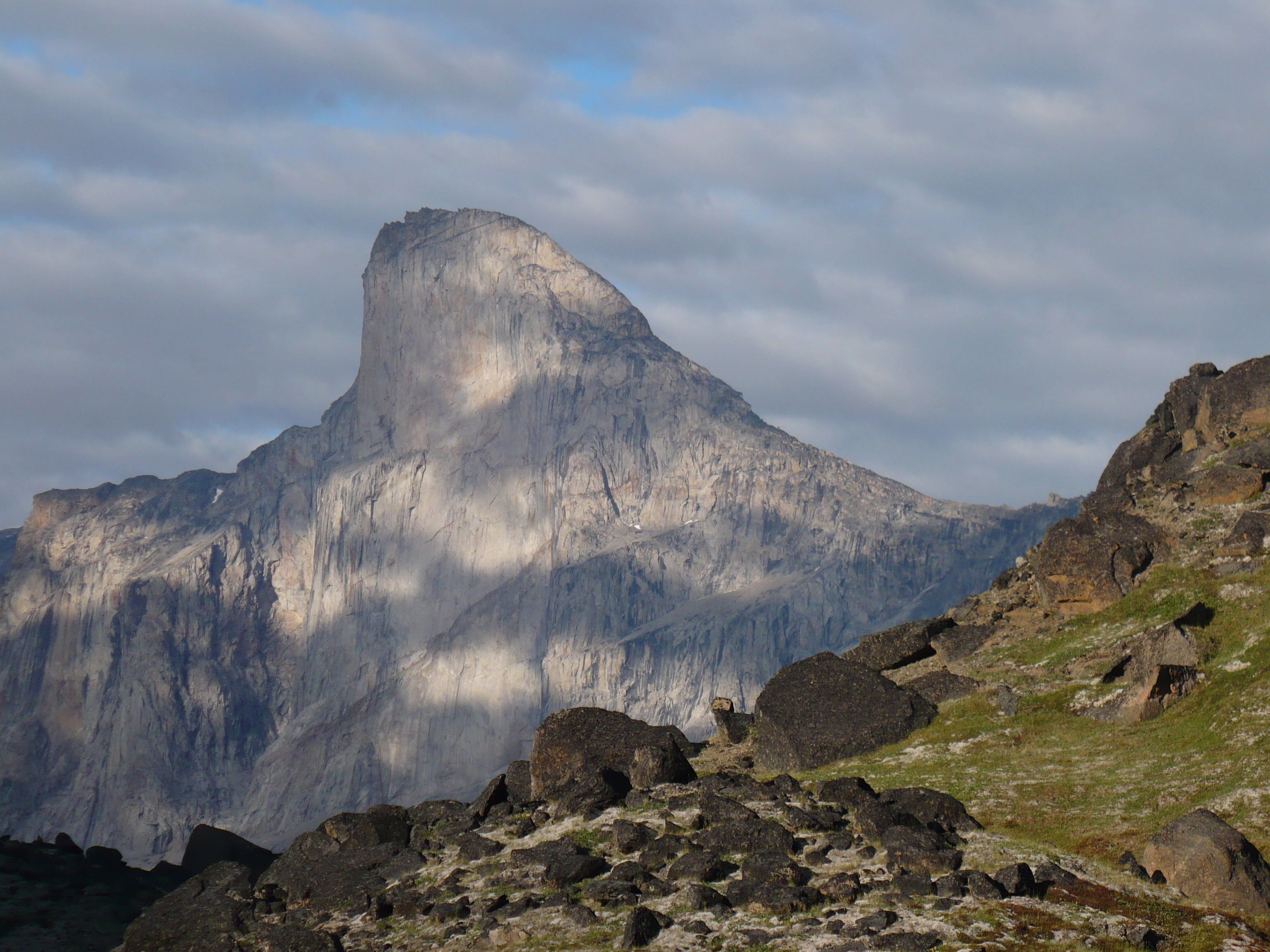 Cloud shadows on the cliff face of Mount Thor